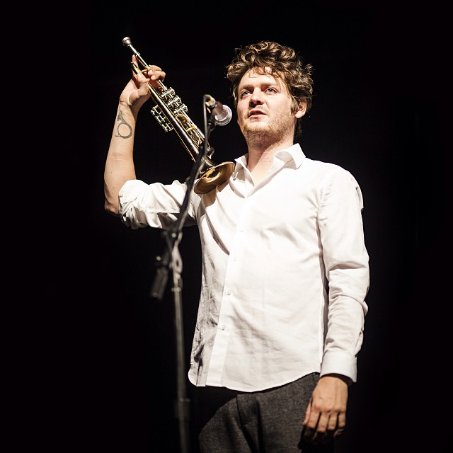 Image I took of Zach Condon of Beirut live at the Fonda Theatre in 2013